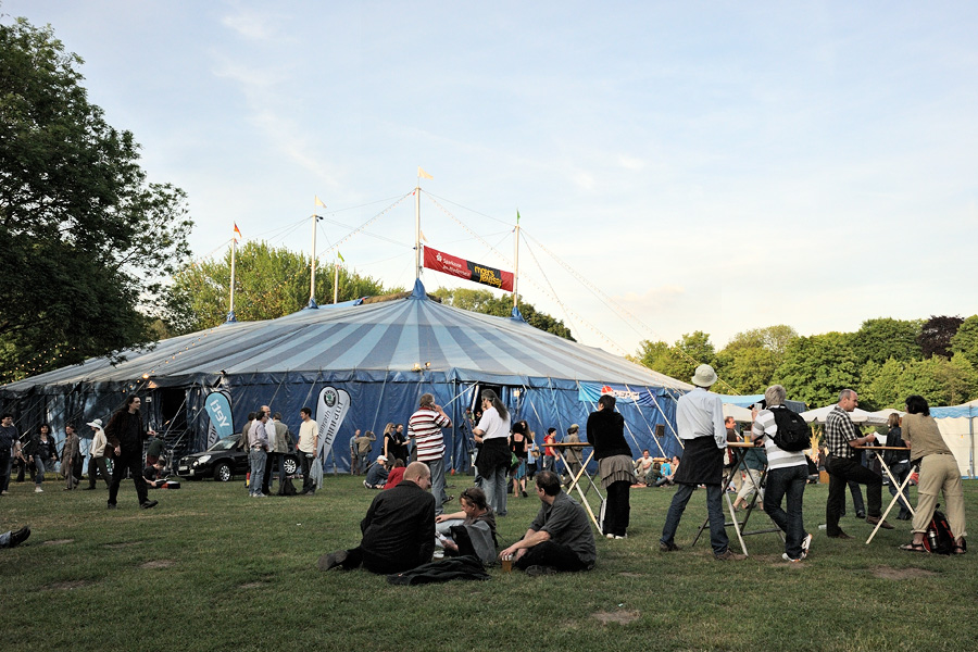 evening at moers festival 2010